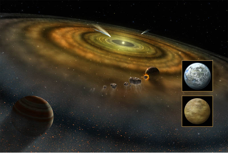 Credit: NASA/FUSE/Lynette Cook Click on image for larger version. Aki likes this image because it shows the dynamic nature of the planet-formation process, with many processes operating at once. This is an artist's conception of the view toward the young star Beta Pictoris from the outer edge of its disk. Beta Pictoris is a 12 million year old star located only 19 parsecs from the Sun. It is surrounded by a disk of dust and gas produced by collisions between, and evaporation of, asteroids and comets. A giant planet may have already formed, and terrestrial (Earth-like) planets may be forming. A young terrestrial planet gaining mass by collision with an asteroid is shown just to the right of center. The planet is dry and without an atmosphere. It will likely acquire one later from the impact of water asteroids, or other kinds of ice-rich asteroids. A team of astronomers led by Dr. Roberge used NASA's FUSE telescope to learn that the gas in the Beta Pictoris disk is extremely carbon-rich, much more so than expected, based on what is known about asteroids and comets in our Solar System. The inset panels show two possible outcomes for mature terrestrial planets around Beta Pic. The top one is a water-rich planet similar to the Earth; the bottom one is a carbon-rich planet, with a smoggy, methane-rich atmosphere similar to that of Titan, a moon of Saturn. NASA press release: Publication Date: August, 2007